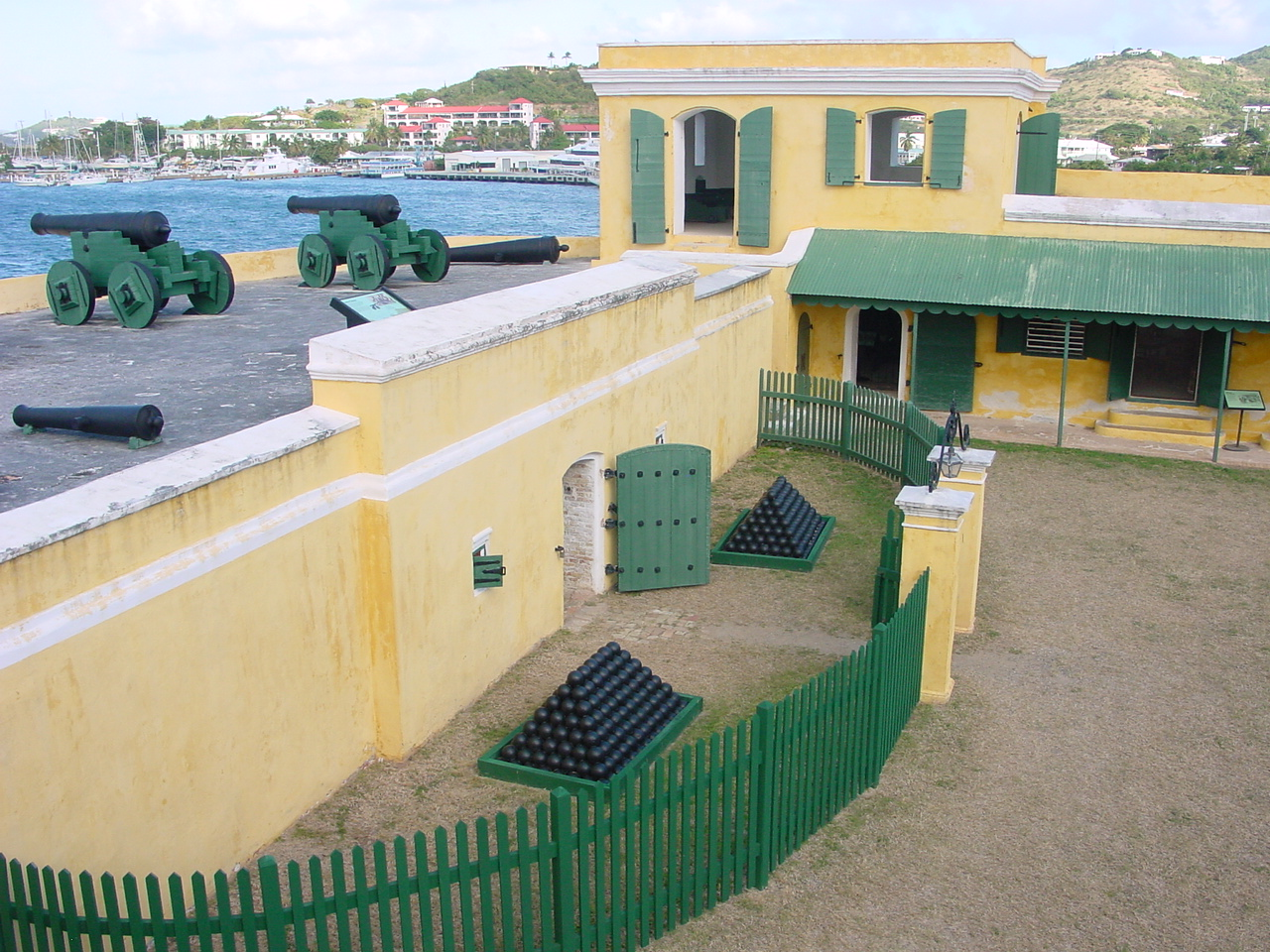 Upper deck and interior courtyard, Fort Christiansvaern, Christiansted, St. Croix, USVI